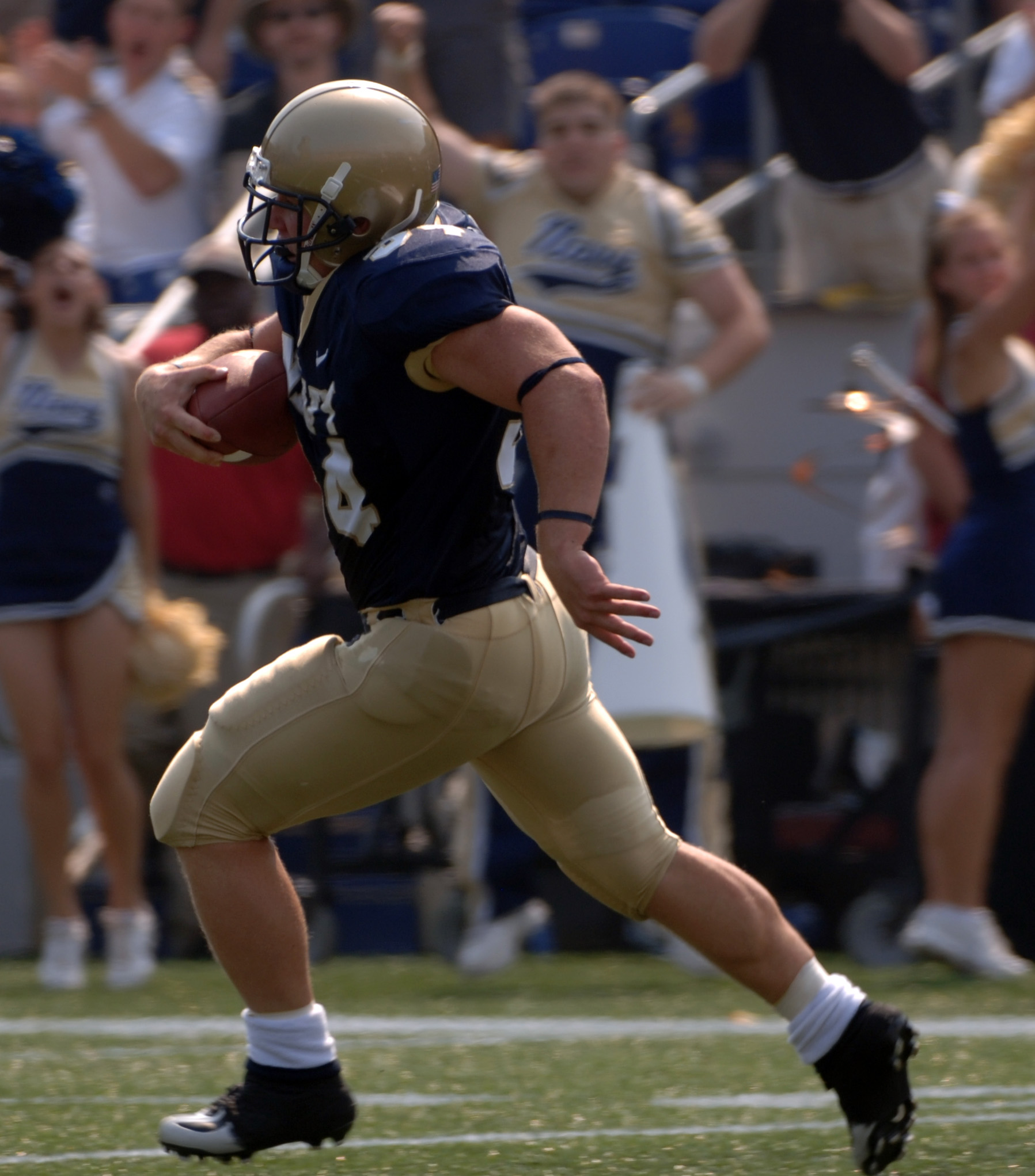 U.S. Naval Academy Midshipman running back Matt Hall rushes toward the end zone to score a Navy touchdown in the 2nd quarter of play at Navy-Marine Corps Memorial Stadium. The Navy Midshipmen (2-0) triumphed over the UMass Minutemen (1-1) 21-20.